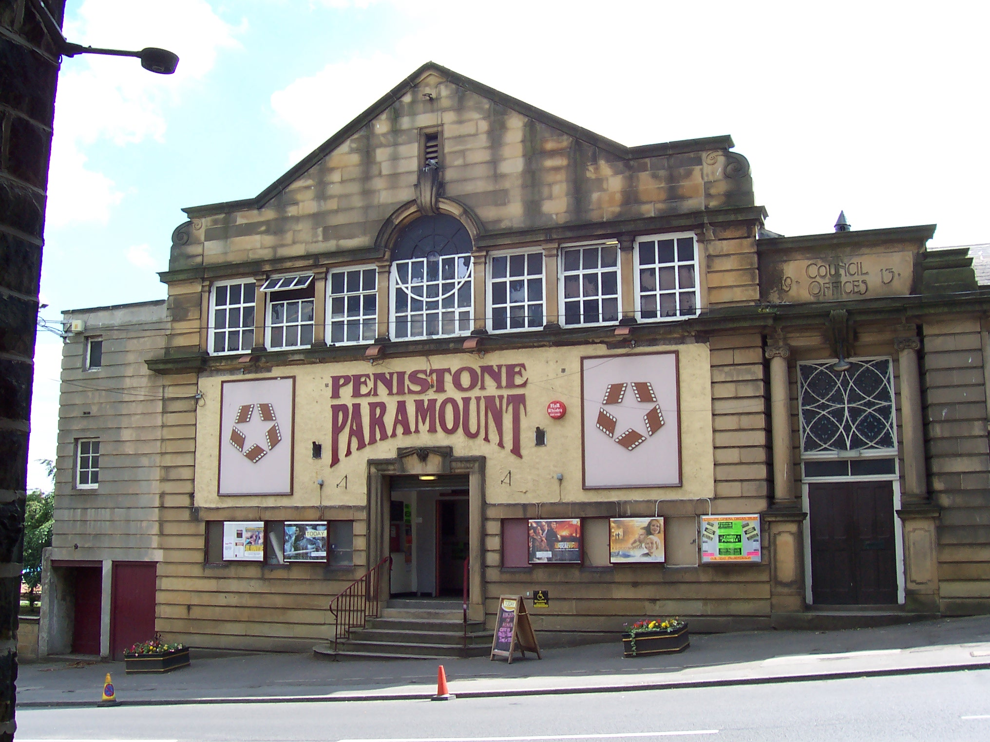 Photograph of Penistone Paramount cinema in the village of Penistone taken by myself on 26 June 2005.